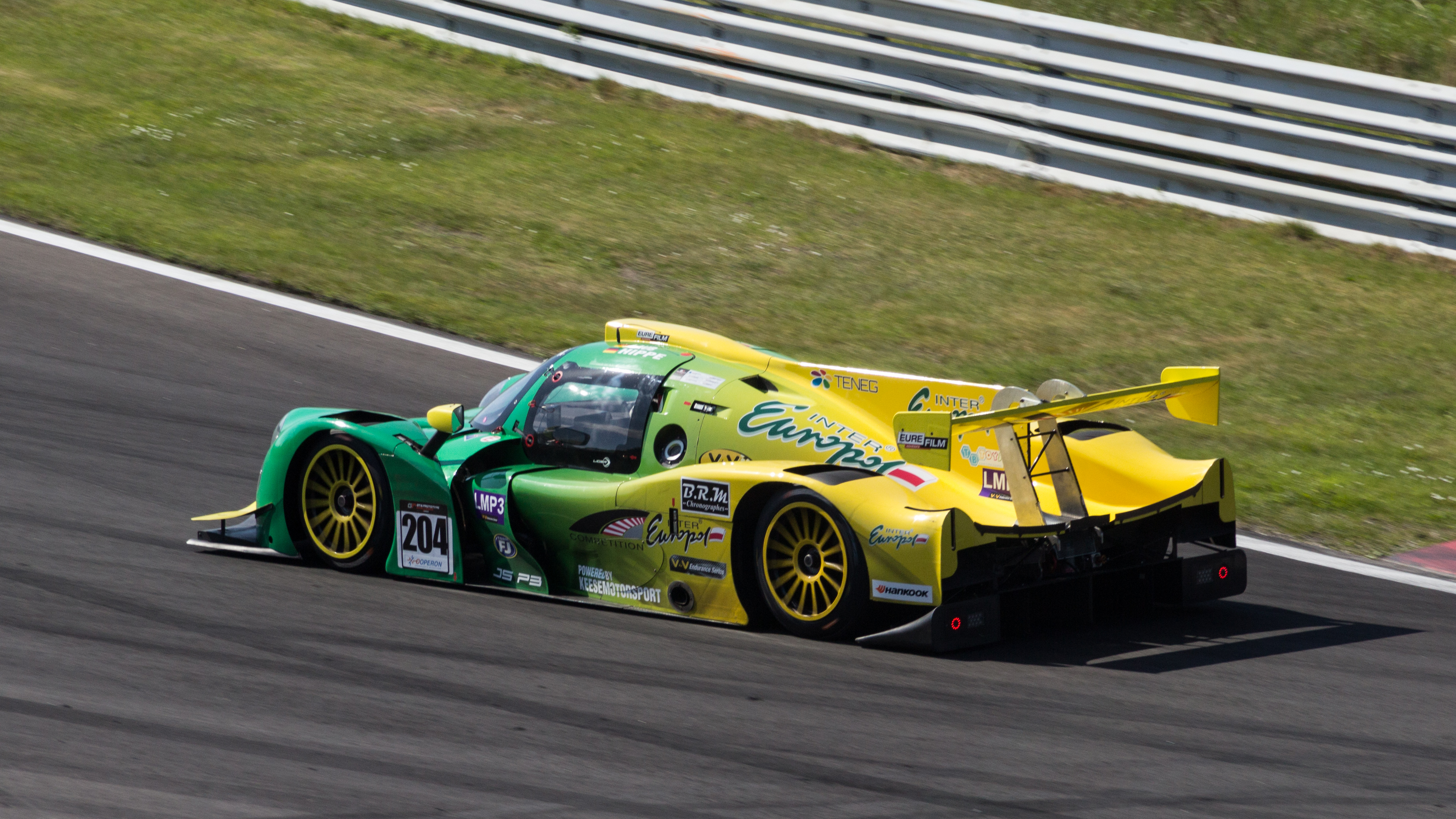 GT & Prototype Challenge at Zandvoort 2017